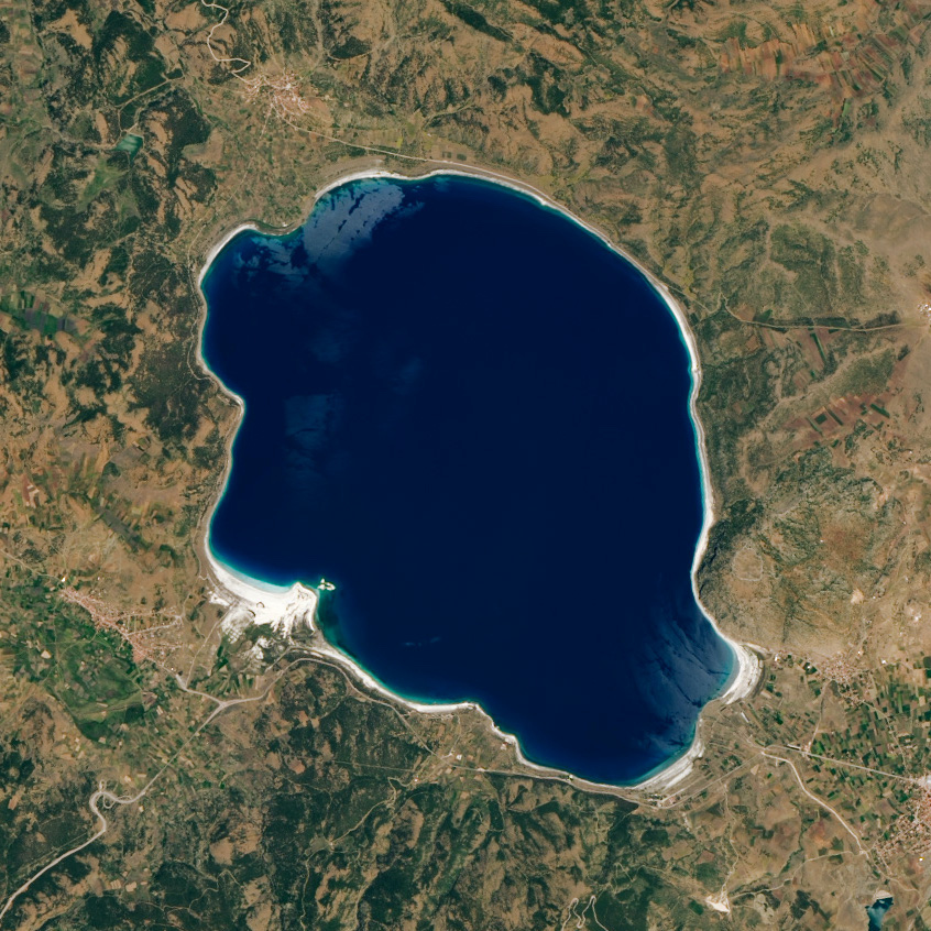 The image shows Lake Salda on June 8, 2020, as observed by the Operational Land Imager (OLI) on Landsat 8. The lake contains alluvial fans full of rock deposits eroded and washed down from the surrounding bedrock.